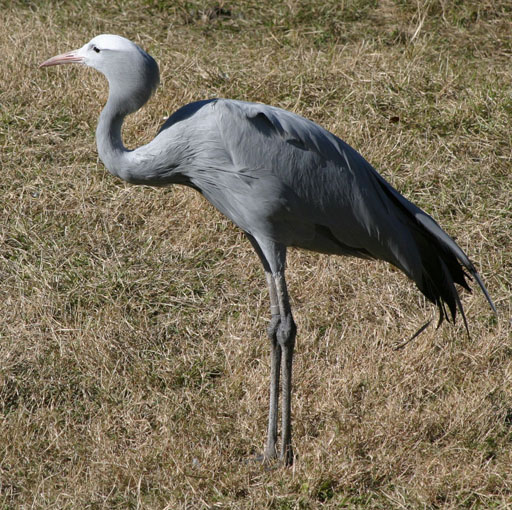 Blue Crane, Anthropoides paradisea, captive bird. Location: Jacksonville Zoo, Jacksonville, Florida, United States